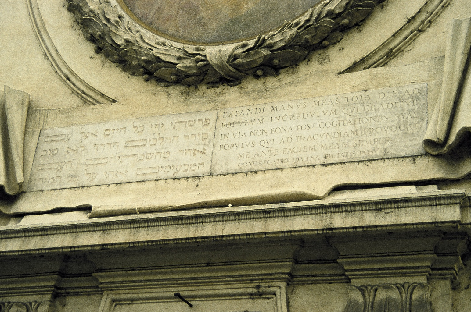 Inscription in Latin und Hebrew on the Architrave of the church San Gregorio della Divina Pietà in Rome